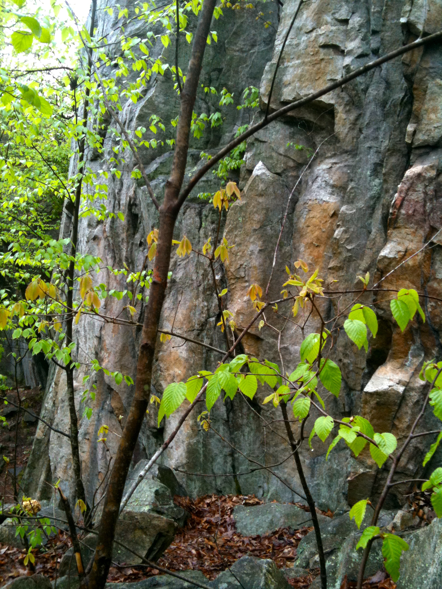 Whitestone Cliffs Trail. Blue-Blazed CFPA "loop" foot path in Mattatuck State Forest. Whitestone Cliffs Trail. Blue-Blazed CFPA "loop" foot path in Mattatuck State Forest. Whitestone Cliffs Trail view of stone cliffs.